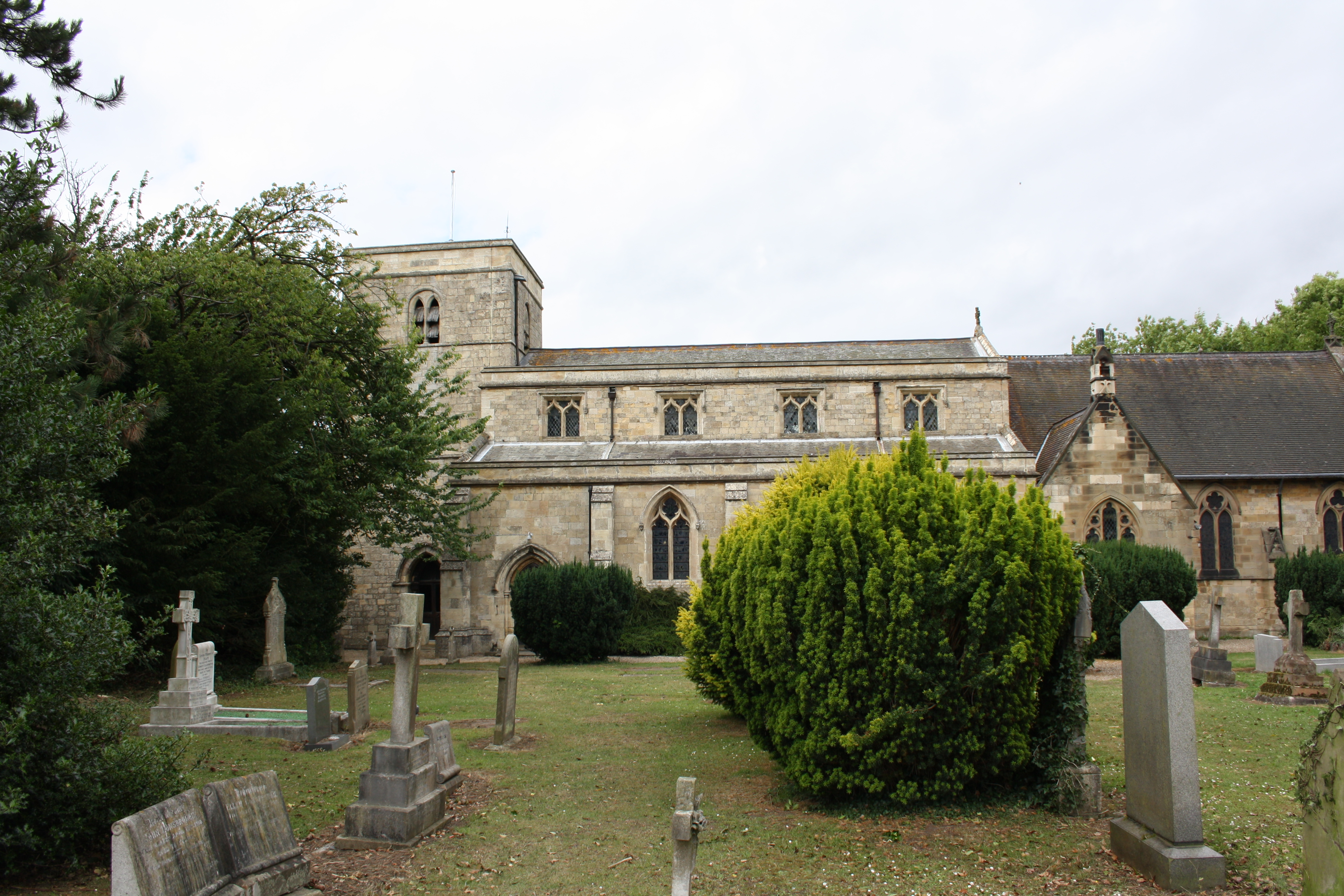 Church of All Saints, Bishop Burton, East Riding of Yorkshire, England.